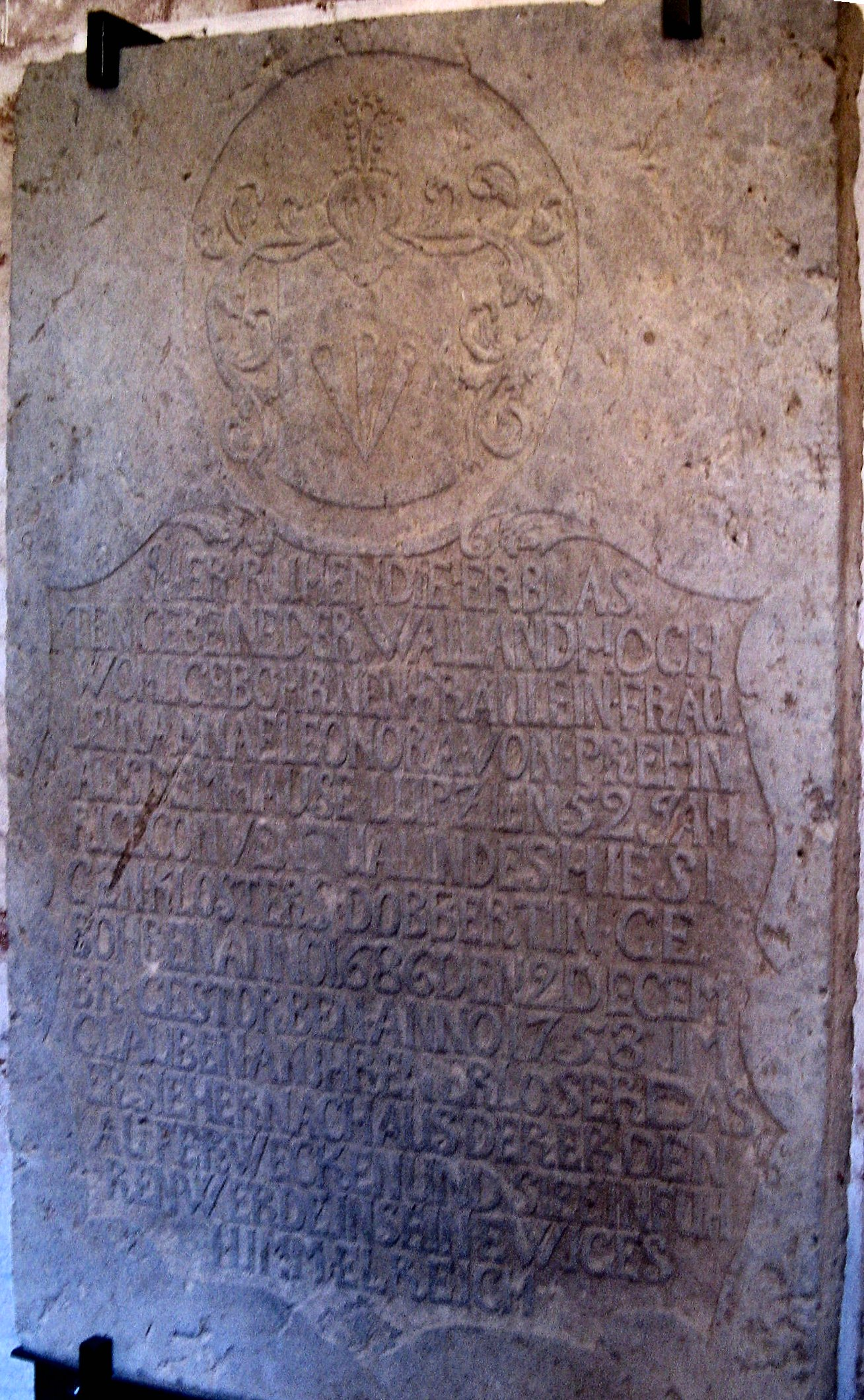 Ledger stone in the cloister of Monastery Dobbertin, district Parchim, Mecklenburg-Vorpommern, Germany